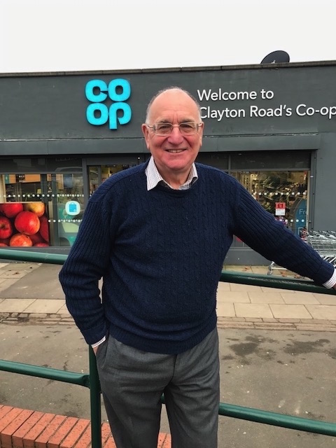 David Hallam, former Member of the European Parliament, was elected to the National Members' Council of the Co-op Group in 2016.